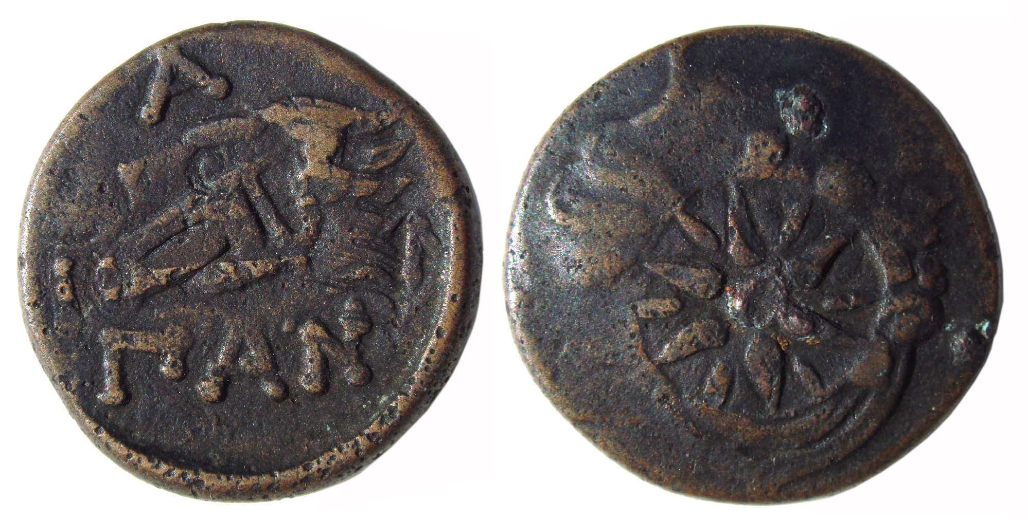 Thracian coin, 4th-3rd century BCE, from the city of Panticapaeum. Lion's head left. Rv. Satyr's head (obscured by star countermark). Cf. Slg. Winterthur 1109. Personal photograph 2006